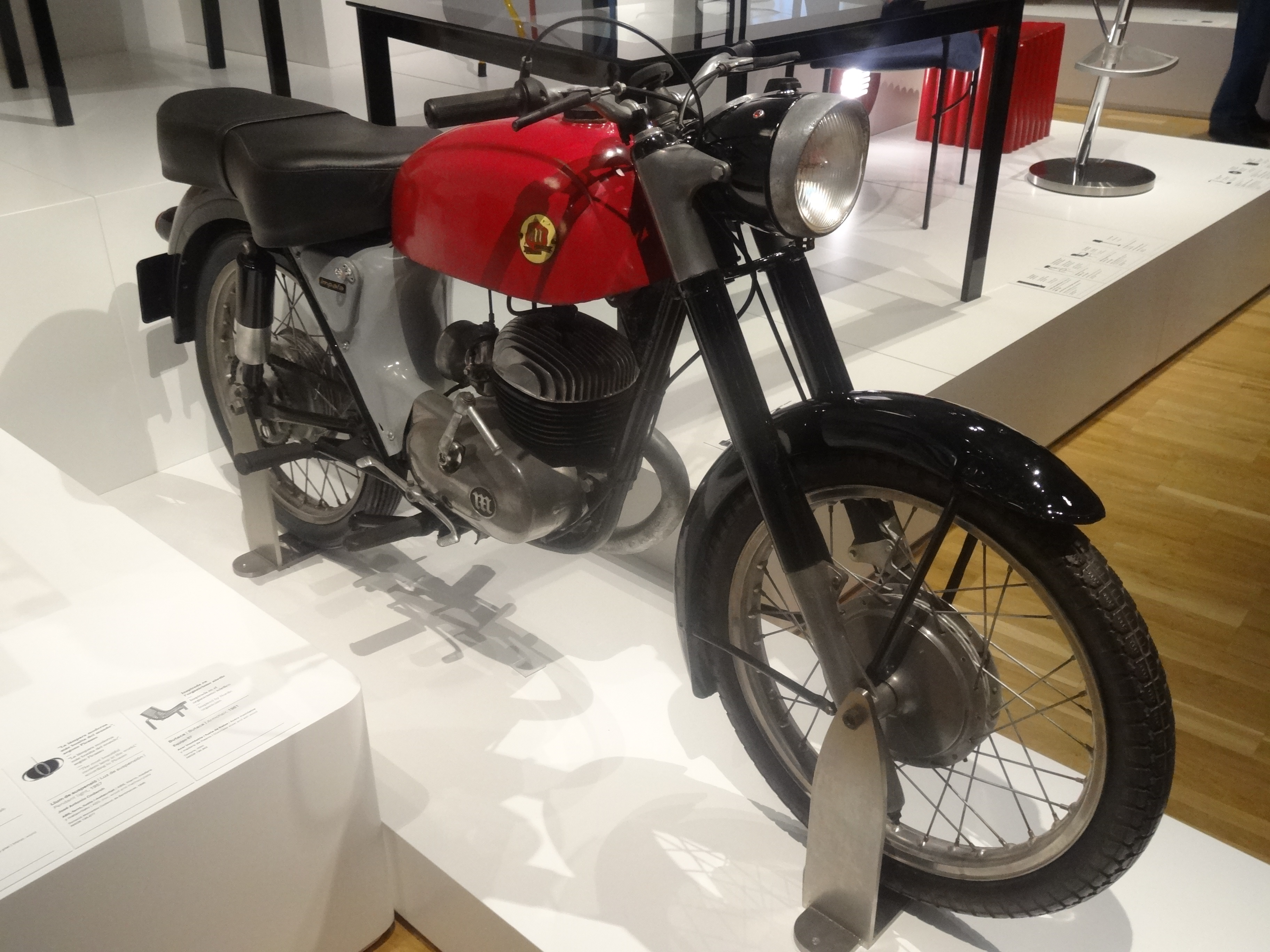 Product Design Collection of Museu del Disseny de Barcelona, located at the permanent exhibition of the 1st floor of the Glories building.